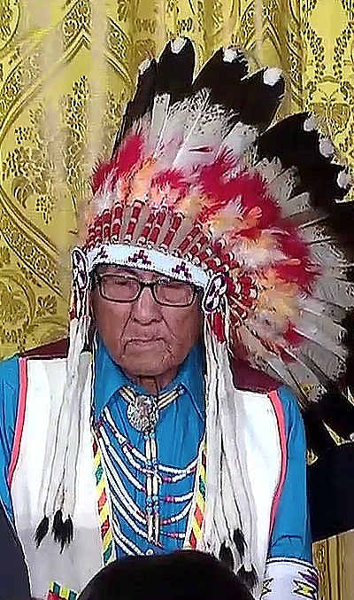 Video screen capture of Joseph Medicine Crow-High Bird at the 2009 Medal of Freedom ceremony. (Other honorees included Nancy Goodman Brinker, Pedro José Greer, Jr., Jack Kemp, Sen. Ted Kennedy, Stephen Hawking, Billie Jean King, Rev. Joseph Lowery, Harvey Milk, Sandra Day O’Connor, Sidney Poitier, Chita Rivera, Dr. Janet Davison Rowley, Mary Robinson, Desmond Tutu, and Muhammad Yunus.)